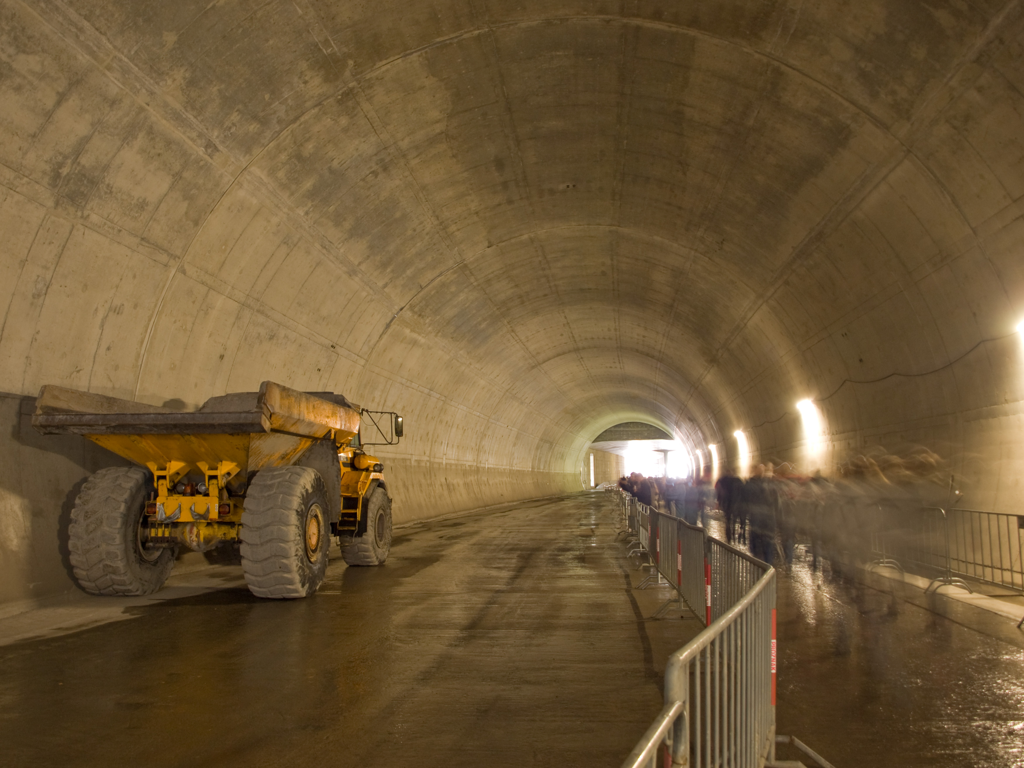 Špejchar – Troja segment, Open doors days in Blanka tunnel in september 2010, Prague